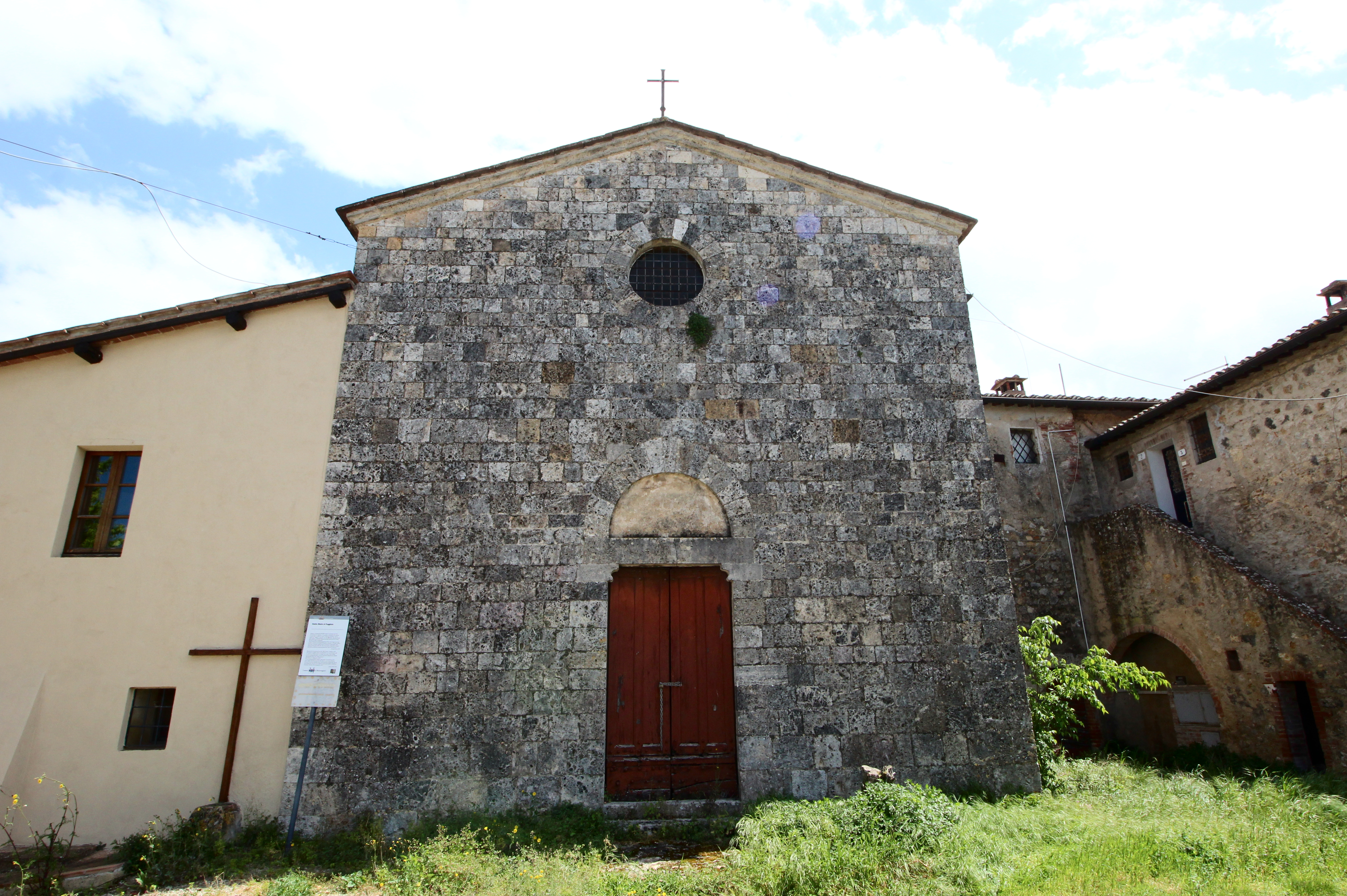 Church Santa Maria Assunta (Maria Assunta del Poggiolo, Maria Assunta al Poggiolo), Poggiolo, village in the territory of Monteriggioni, Province of Siena, Tuscany, Italy